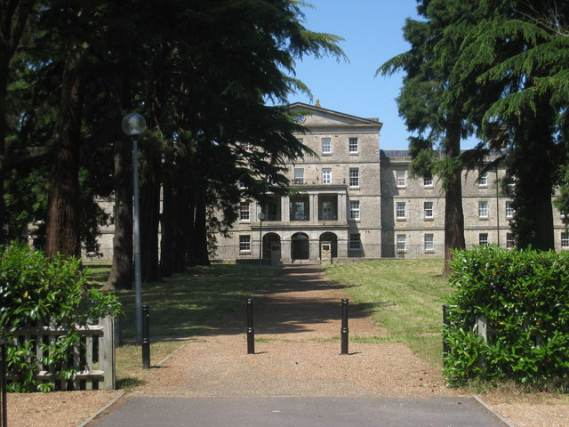 St Andrew's House, Oakwood Hospital, St Andrew's Road, Maidstone, Kent Former lunatic asylum established in 1833. It was derelict from the 1990's until around 2001 when it was converted to apartments. Grade II listed